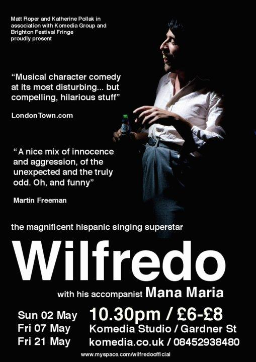 Promotional flyer for Wilfredo at the Brighton Fringe